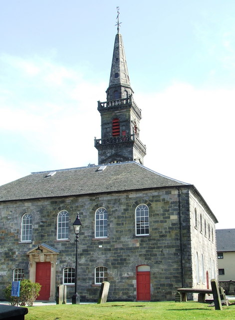 High Church A rear view of the church, built as High Church in 1750, now known as Oakshaw Trinity Parish Church.